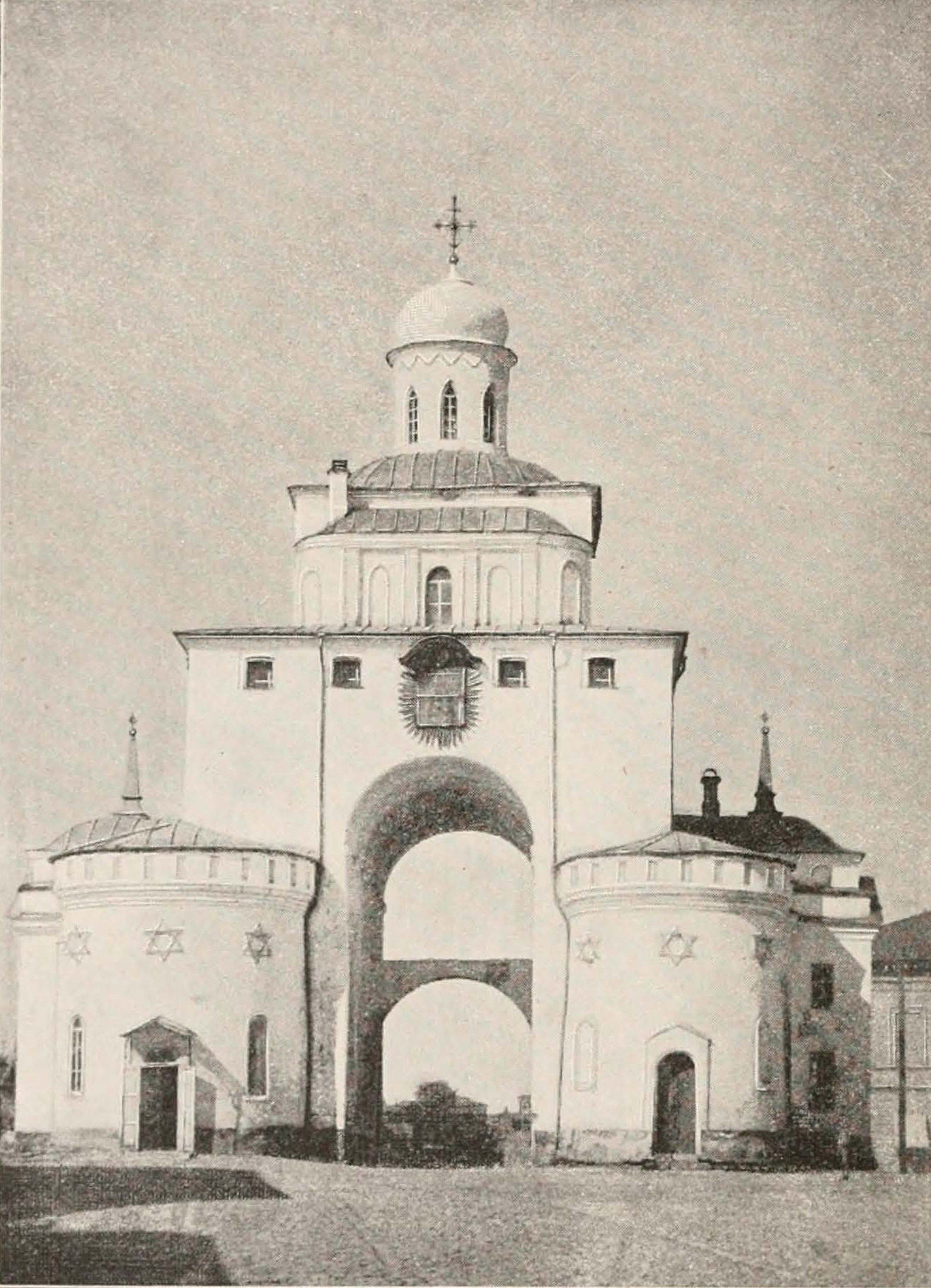 Golden Gate in Vladimir